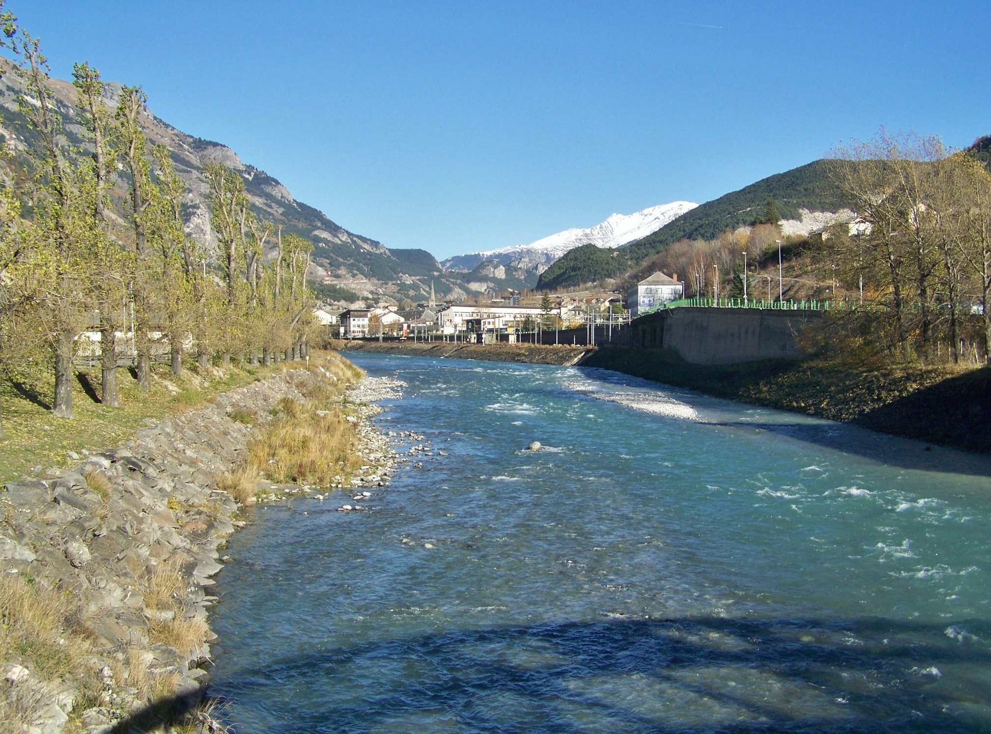 French alpine river Arc seen in Modane in Savoie.